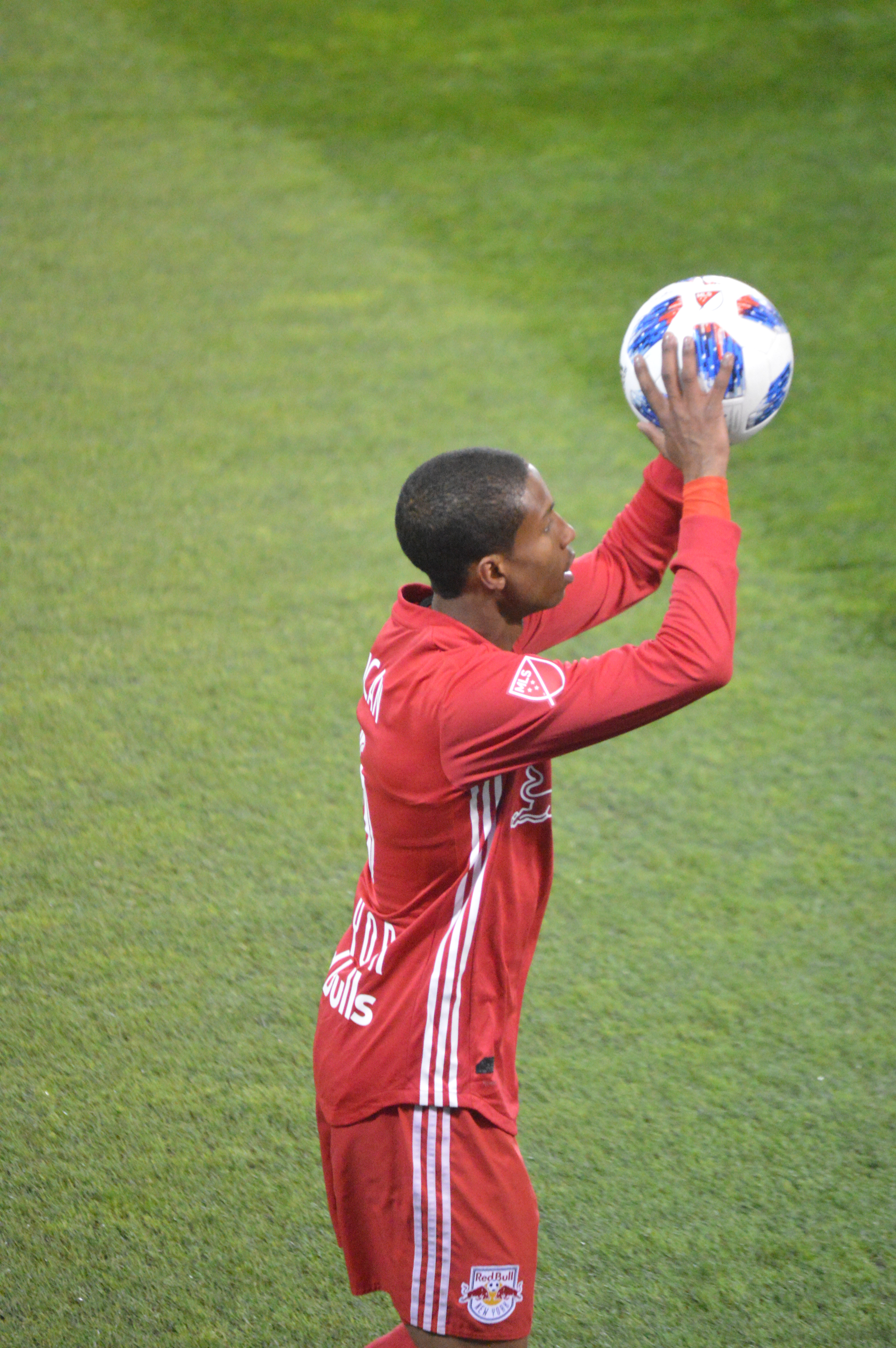 Kyle Duncan playing for New York Red Bulls against Portland Timbers on March 10, 2018, NYRB's MLS season opener.